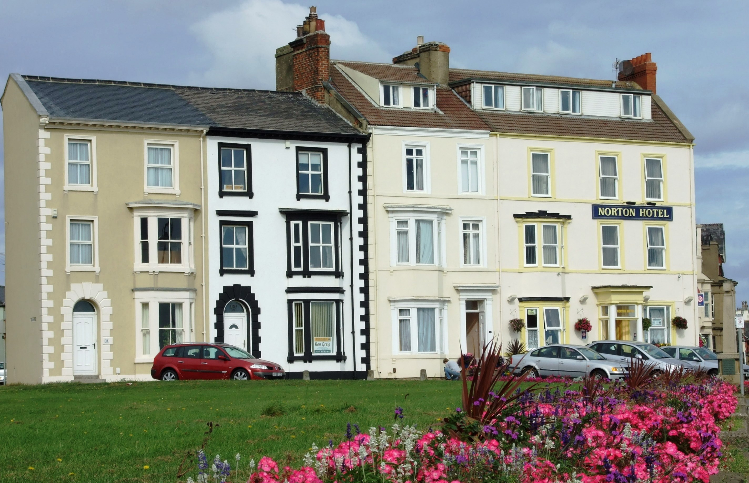 Houses around The Green at Seaton Carew, Hartlepool, England.